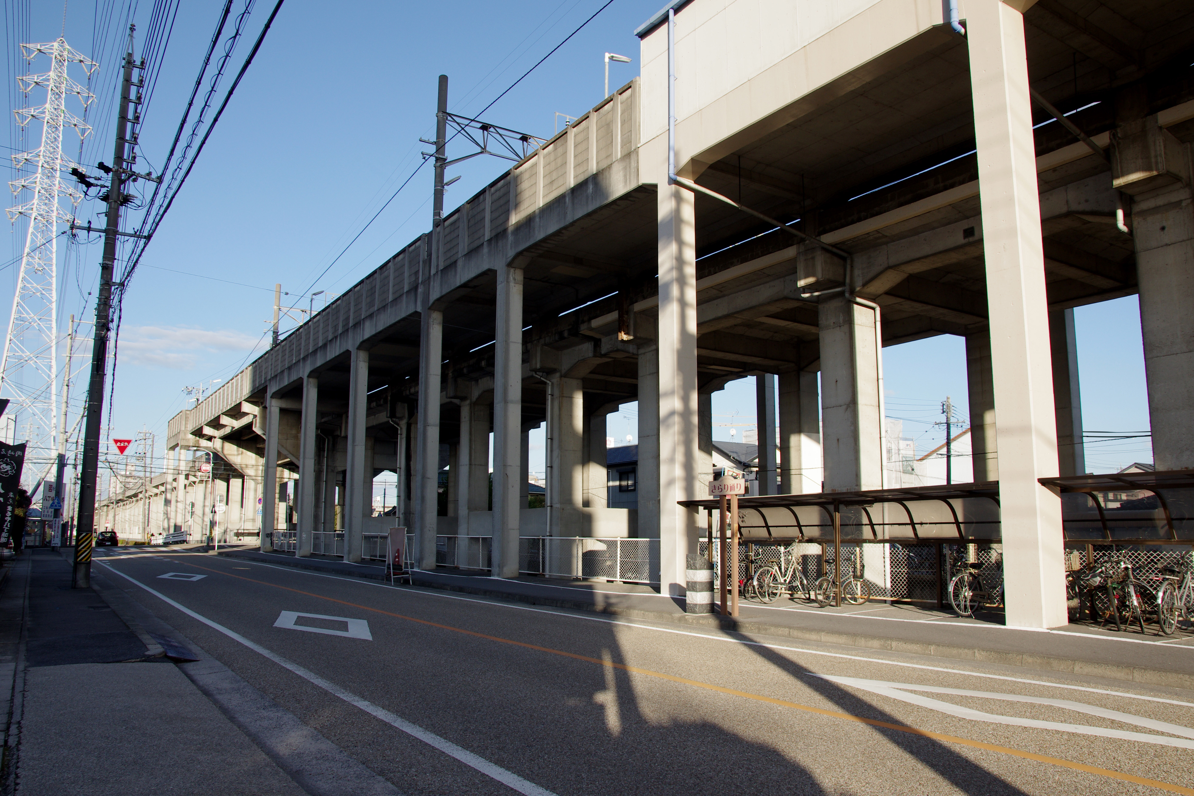 Starting Point of Kirari-dori Ave. in Okazaki, Aichi, Japan